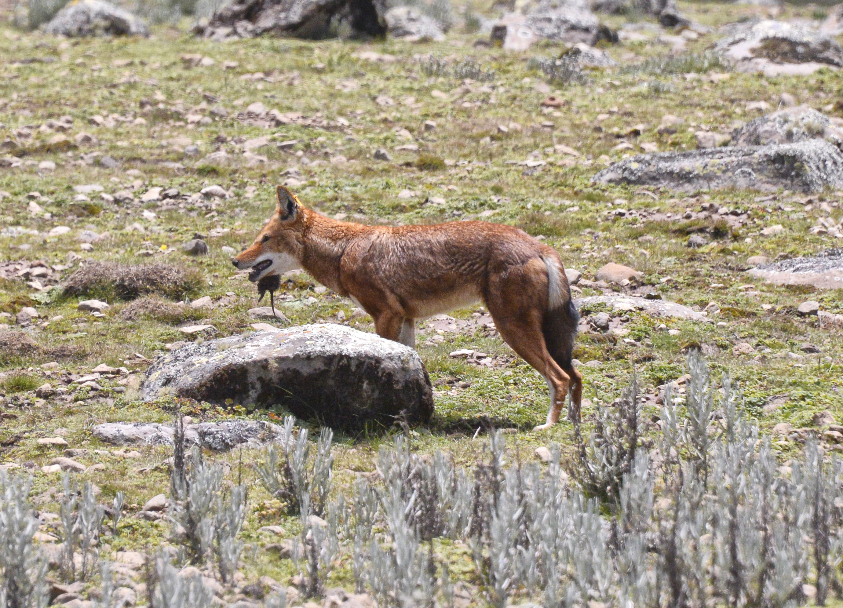 Rare Ethiopian Wolf Feeding, Bale, Ethiopia